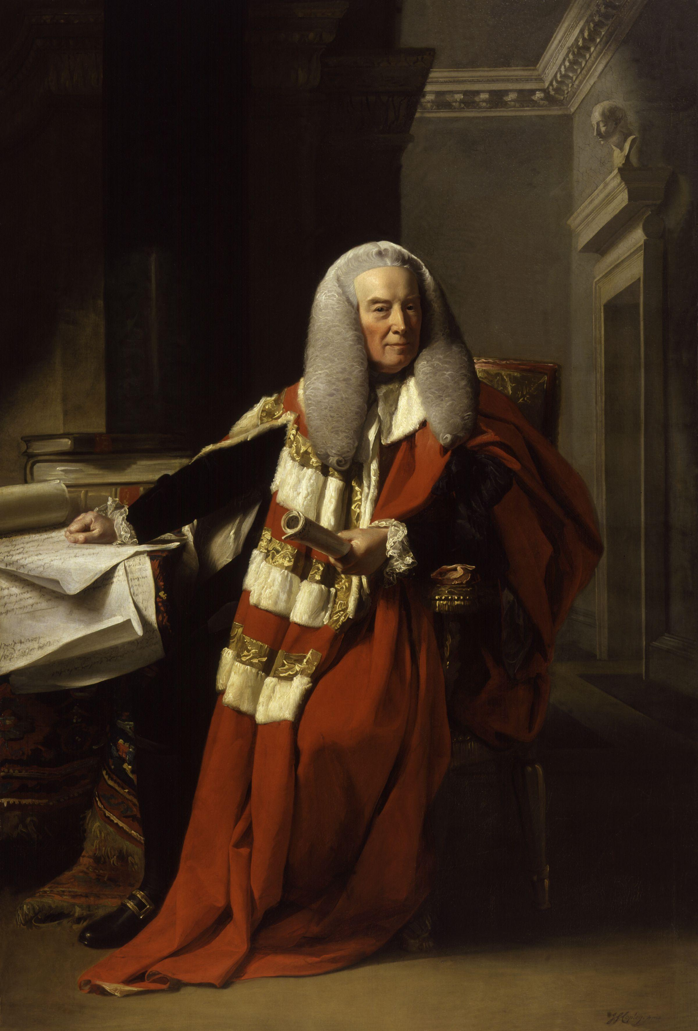 Portrait of William Murray, 1st Earl of Mansfield (1705-1793) in his official robes as Lord Chief Justice